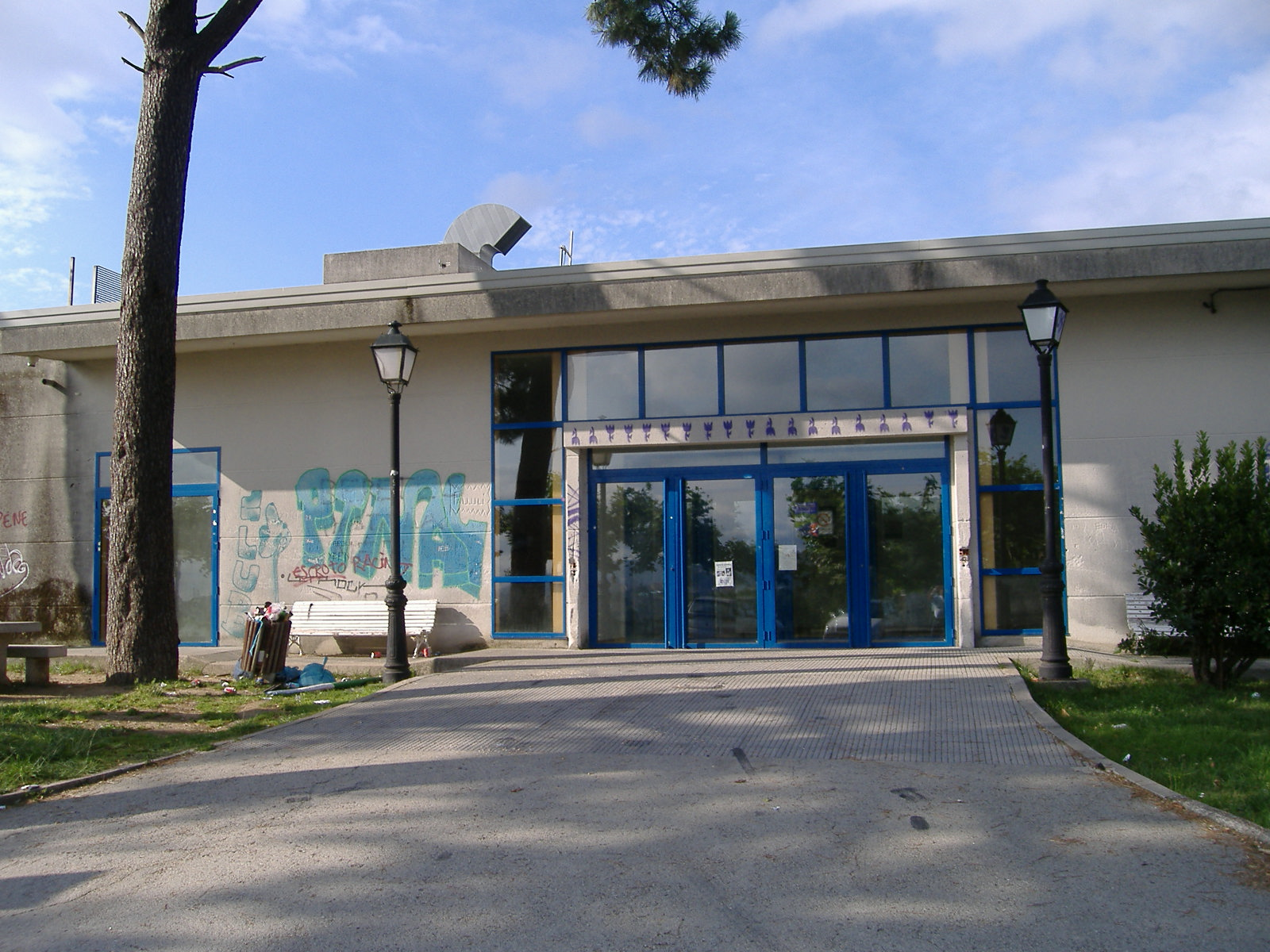 Main entrance of the Civic Center of Chapela.